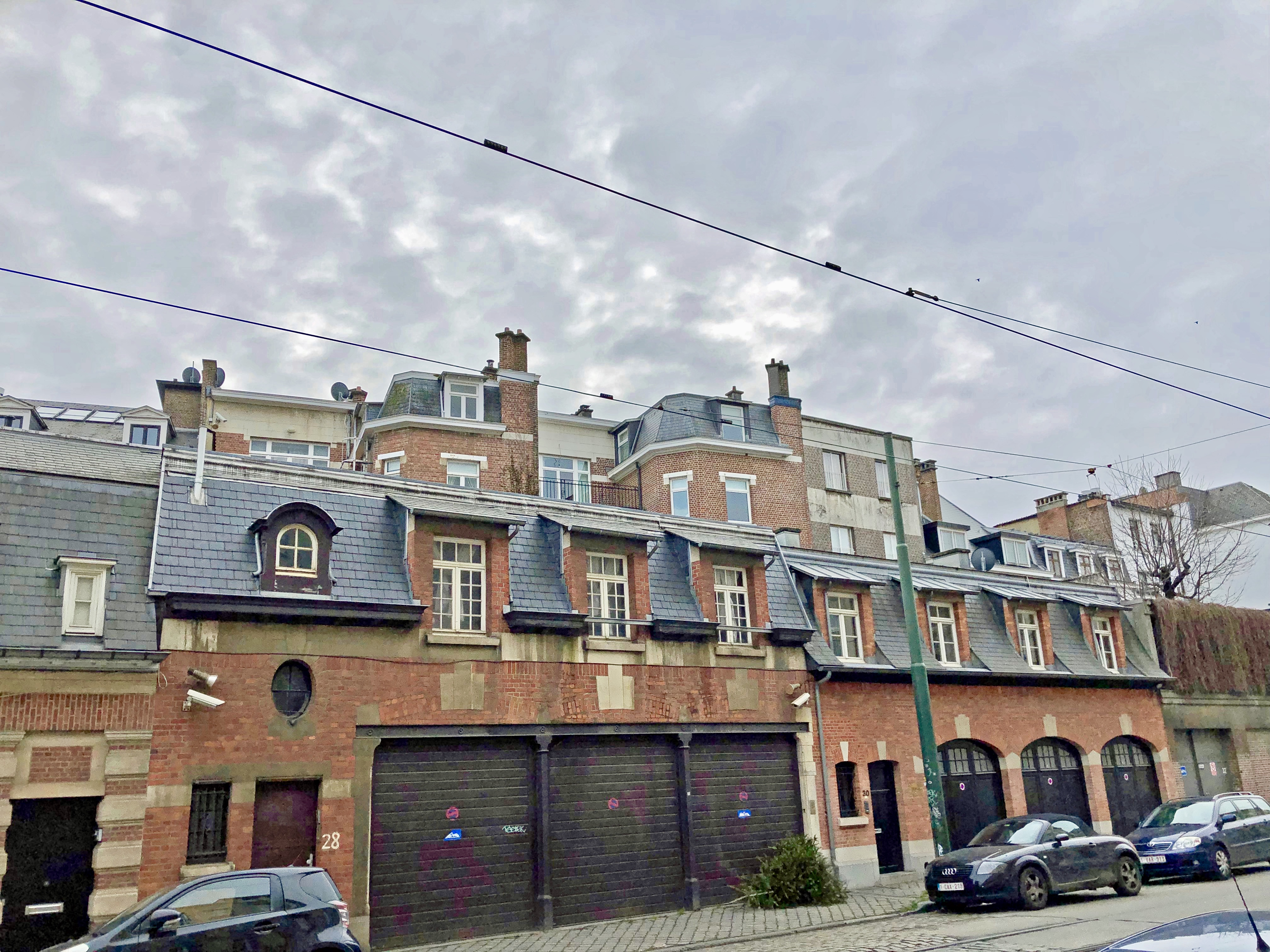 The maid's rooms of the square du Bois (Legrand Avenue)